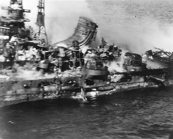 Close-in view of burning Mikuma´s midship. The rear funnel was destroyed. Note the hull damage and draw out torpedotubes on the right